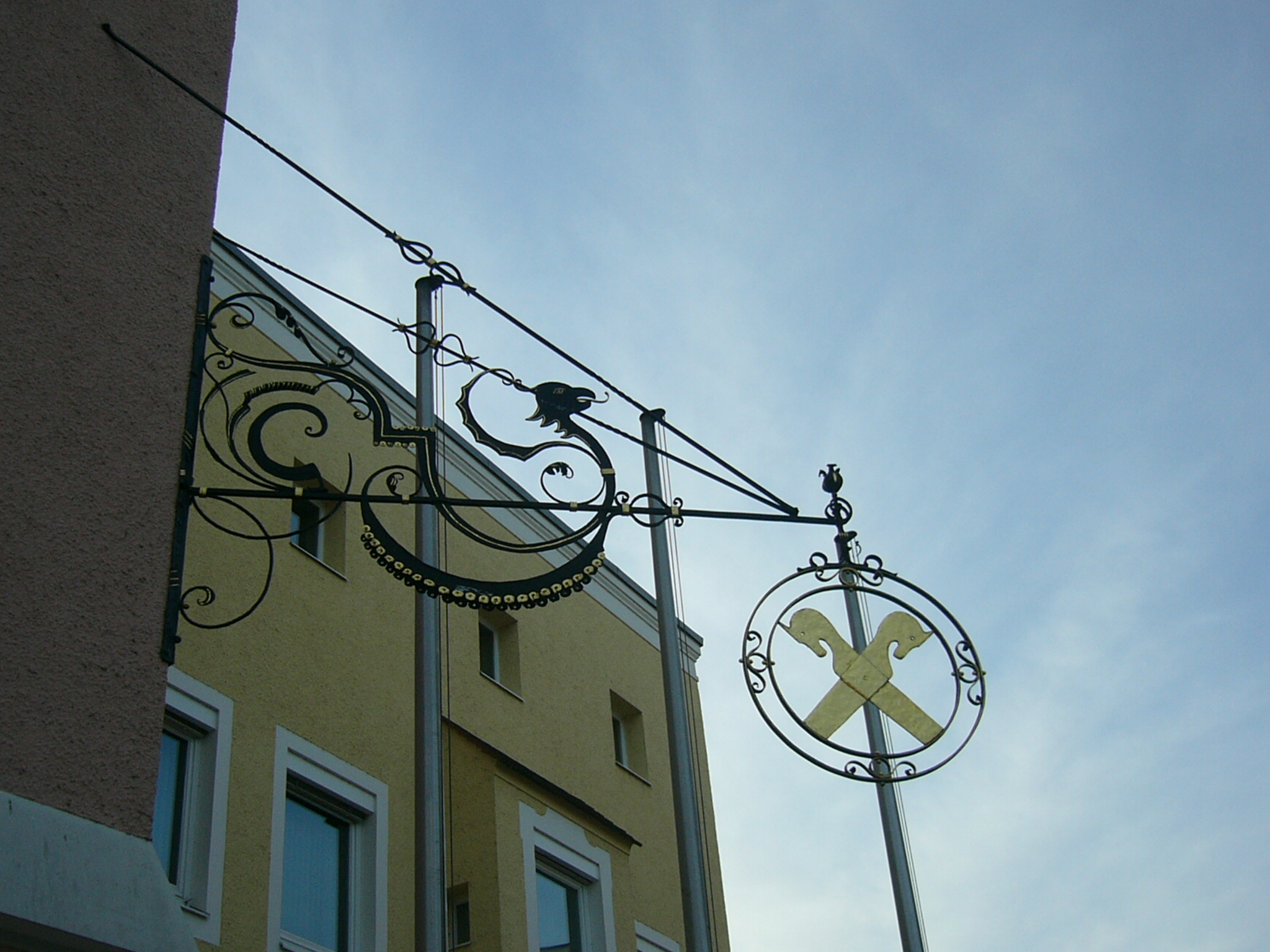 Old logo of Raiffeisenbank (German Bank), seen in Pfarrkirchen, Lower Bavaria.